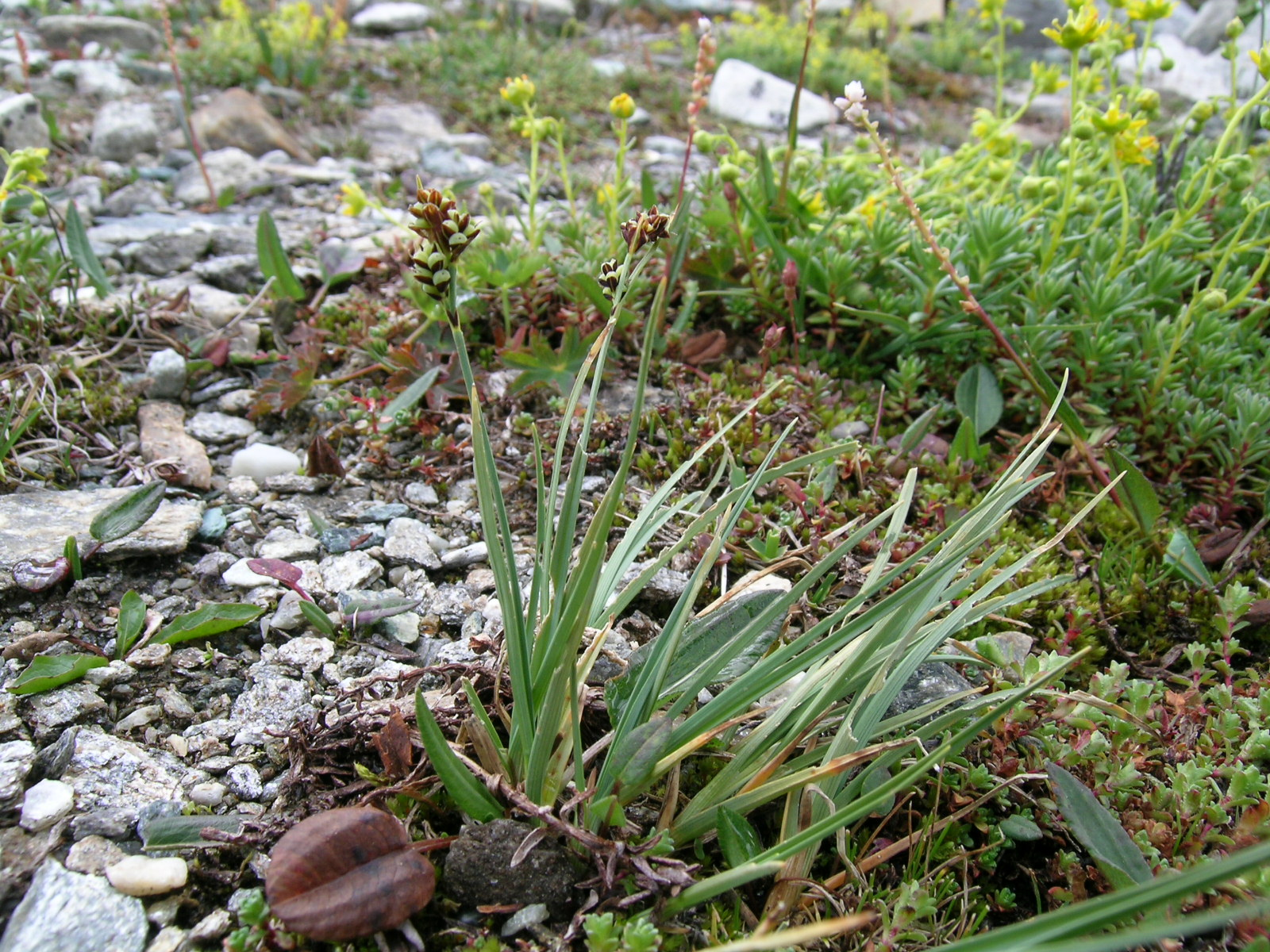 Carex bicolor Zermatt, Riffelberg (Kanton Wallis, Switzerland), 2500 m Author: Roland Teuscher – own photograph Date: 4.08.06